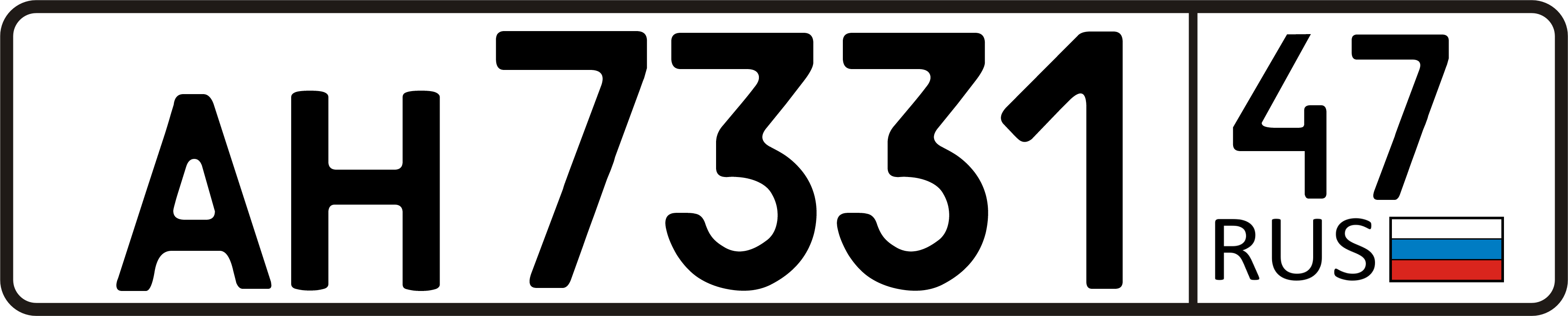 Russian license plate for trailers.